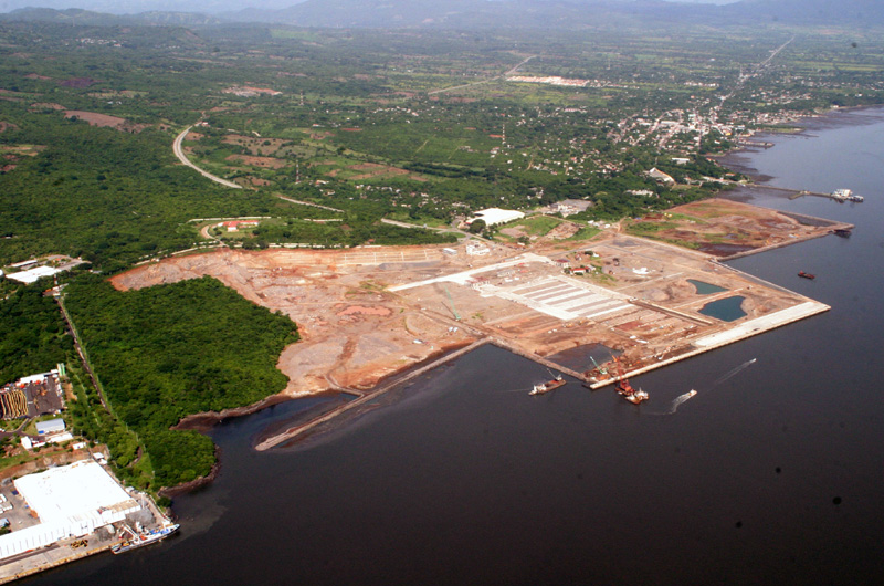 Aerial view of the construction site of the new Port of La Unión, El Salvador